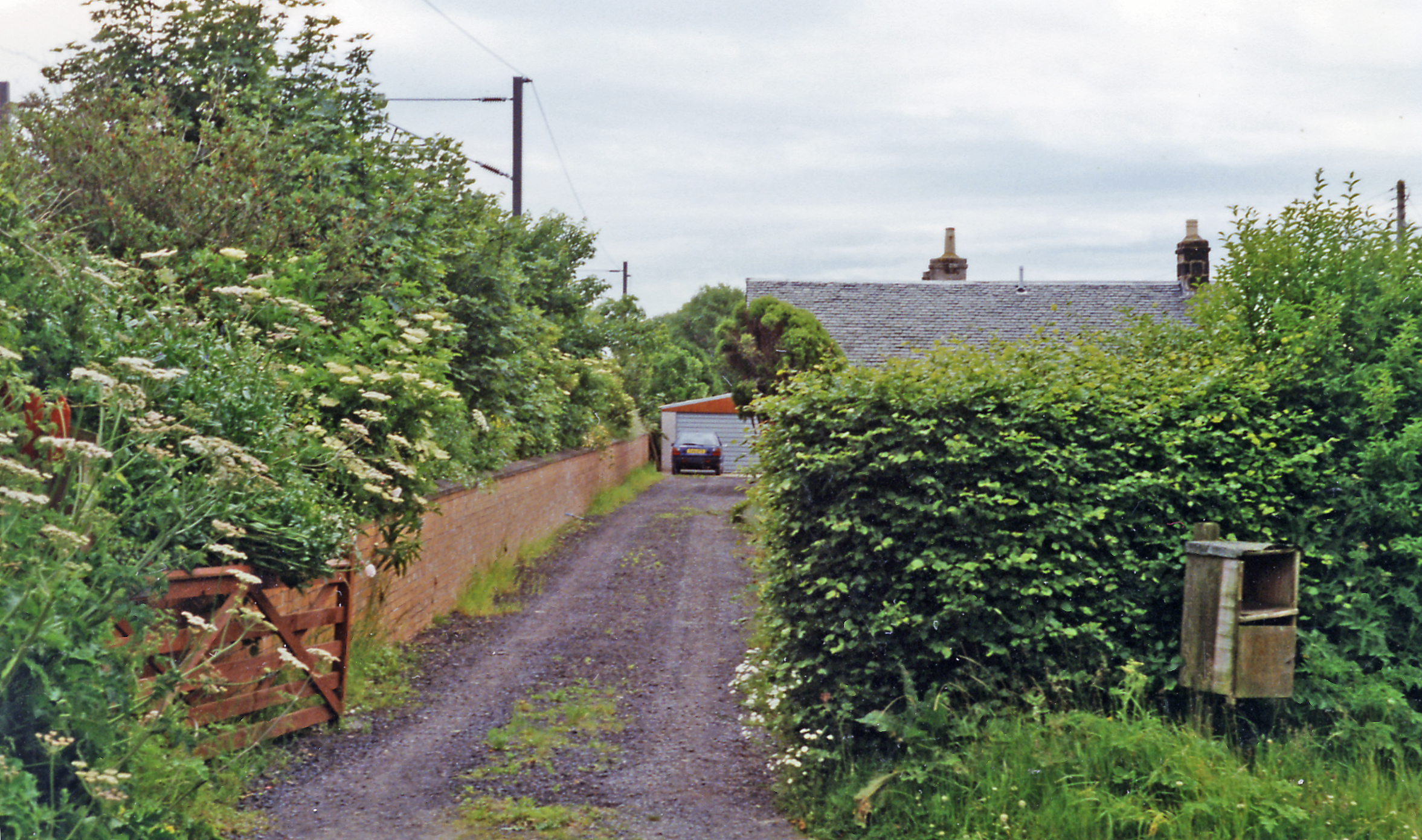 Site of Ayton station, 1997. View towards Edinburgh, on the electrified East Coast Main Line: ex-NBR Berwick-upon-Tweed - Edinburgh section. Nothing of the former station could be seen - after all it had been closed for over 30 years, 5/2/62 to passengers, 7/11/66 to goods.